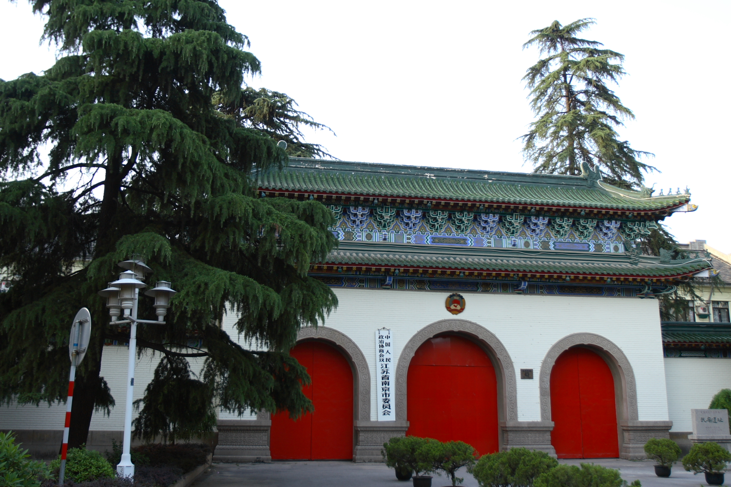 Kaoshi Yuan, Nanjing